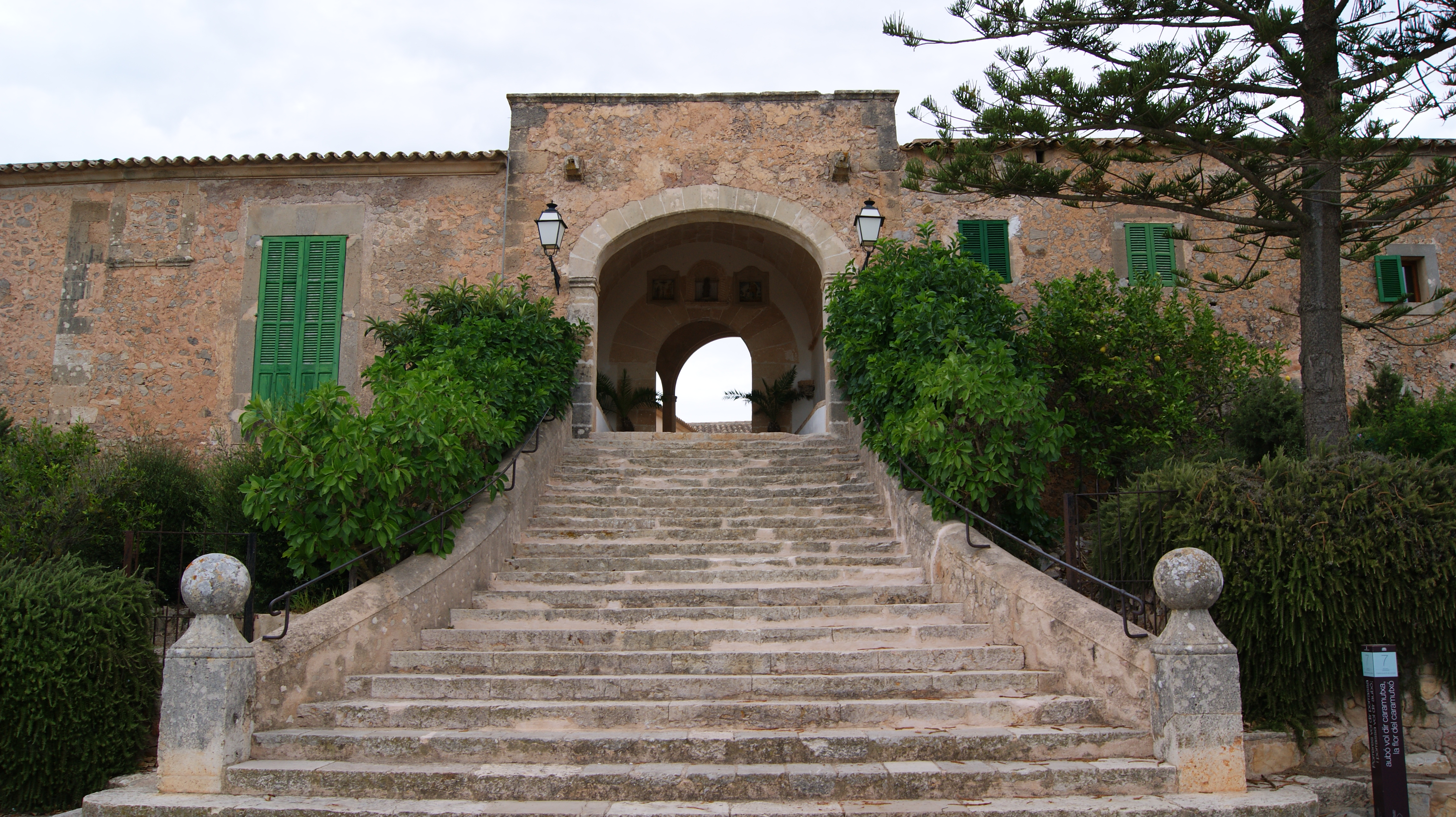 Santuari de Monti-Sión (former monastery and school) near Porreres on Mallorca.